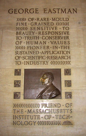 Plaque of George Eastman at MIT Photograph taken by Jackson Frakes. Copyright © 2002 by Jackson Frakes. (Jackson Frakes is User:MITalum and licenses the image "under the terms of the Wikipedia copyright.") Category:Massachusetts Institute of Technology